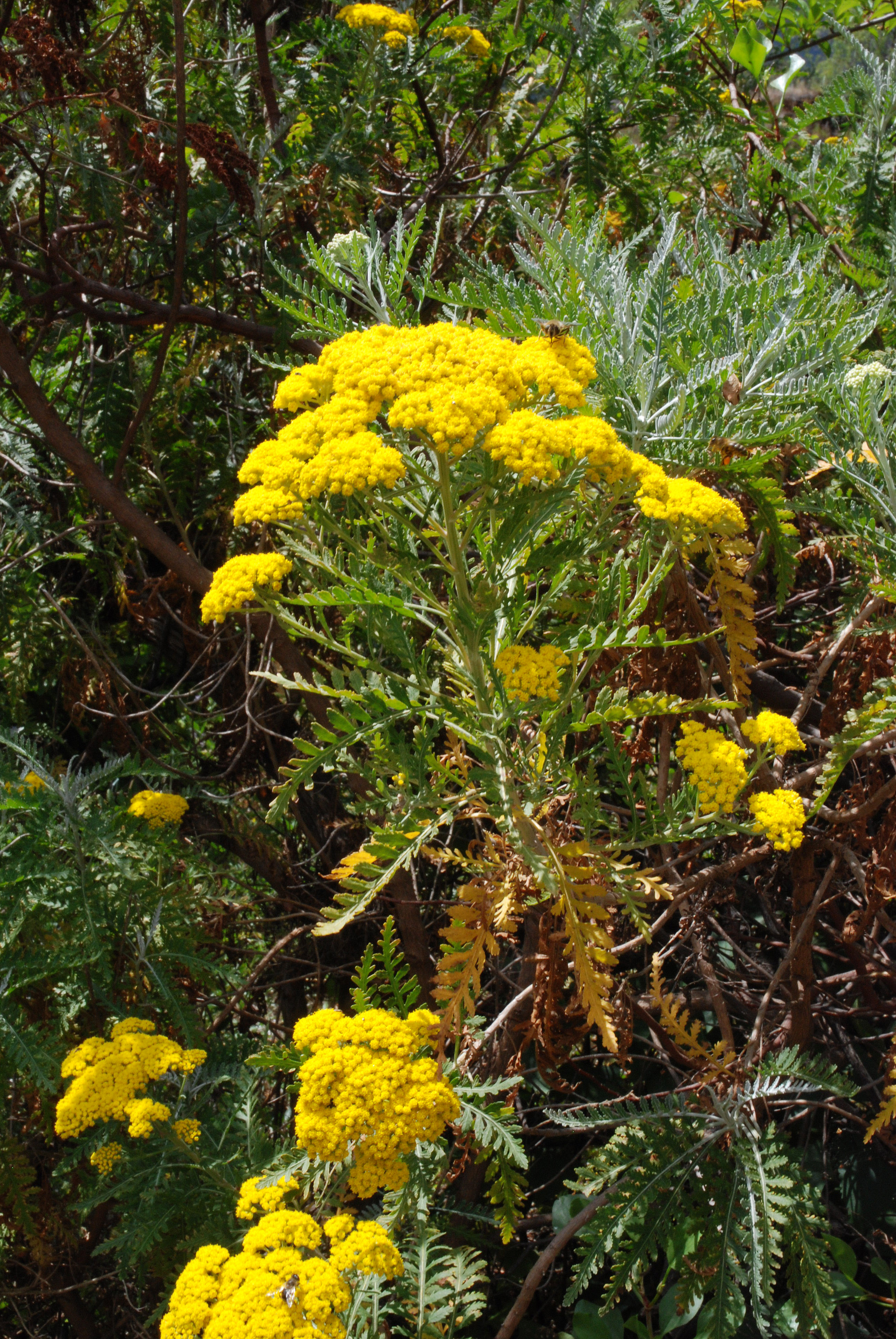 Gonospermum elegans, Caldera de Taburiente, Near La Caldera, La Palma, Spain